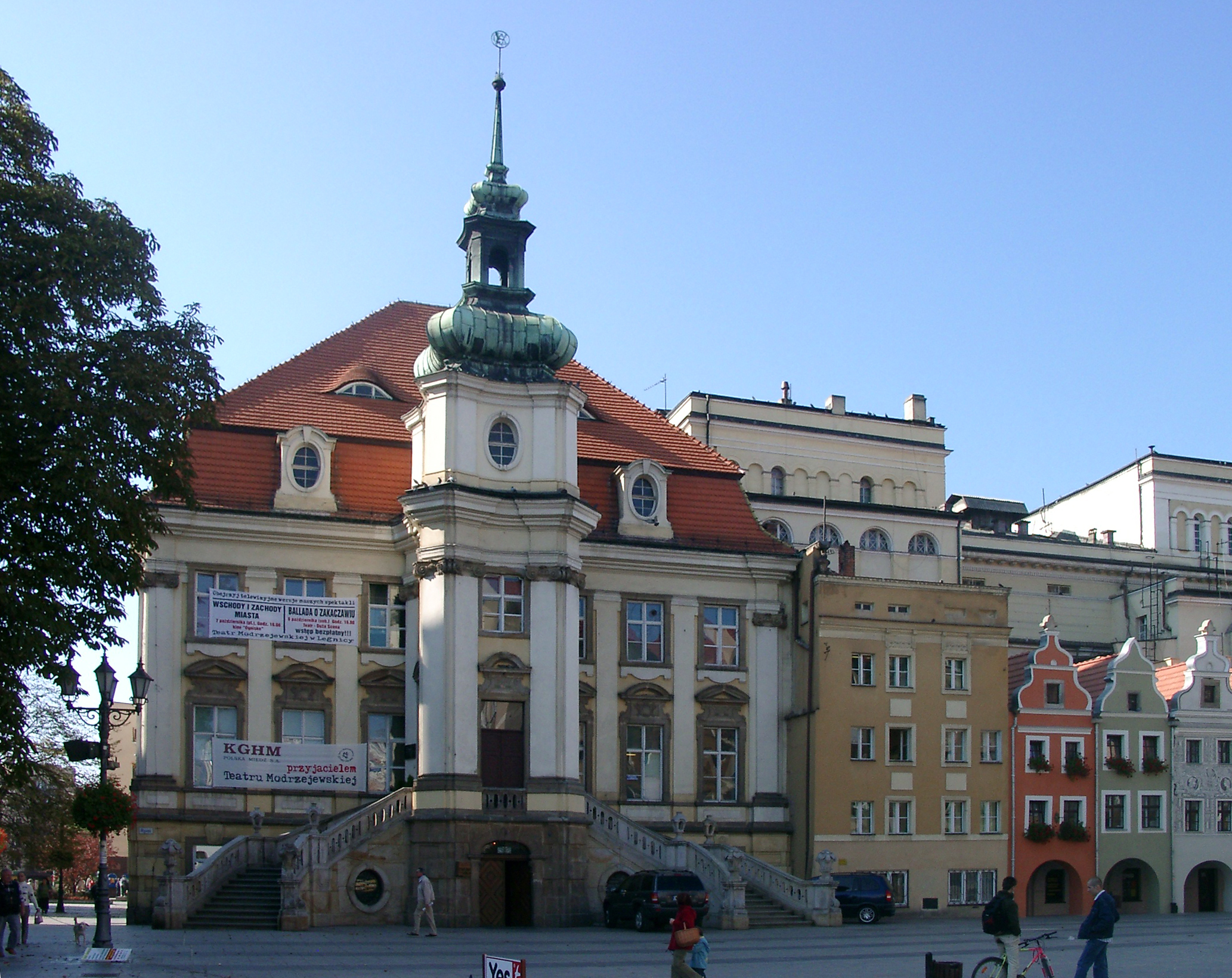 Dawny Ratusz w Legnicy (Polska). The former Town Hall in Legnica, Poland.